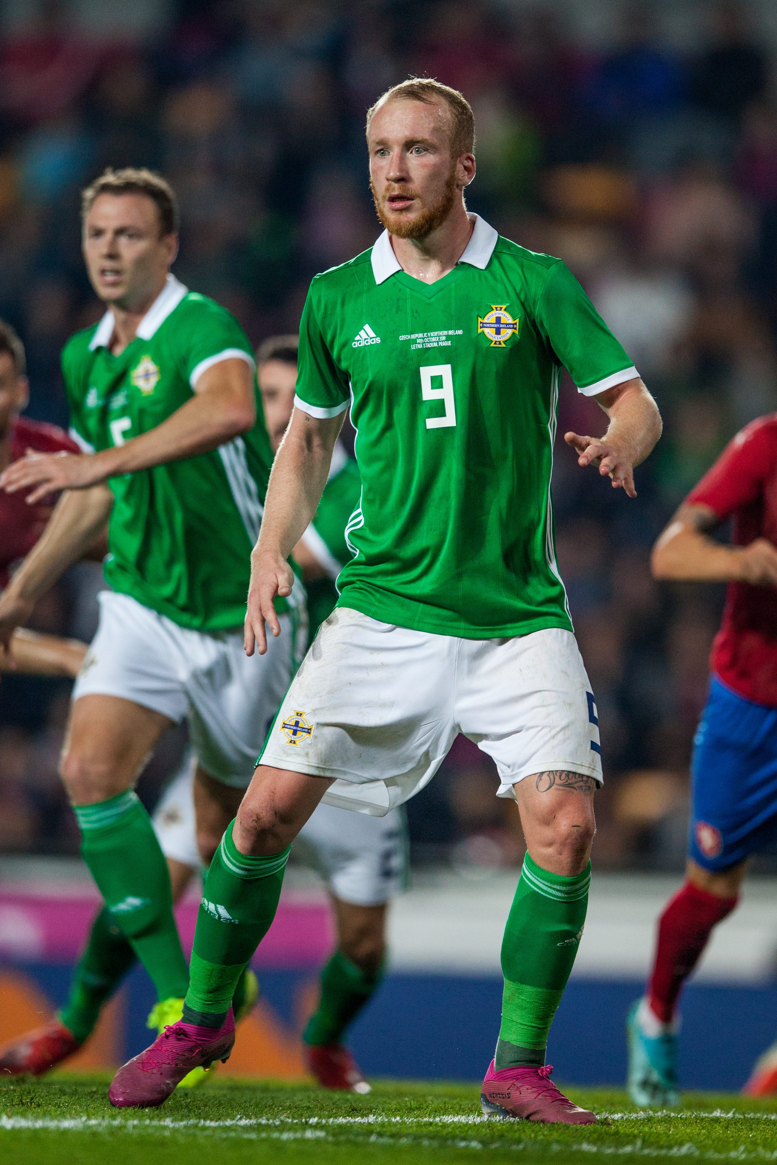 Liam Boyce in an international friendly match between Czech Republic and Northern Ireland (2:3), Stadion Letná (Prague) 2019-10-14 The making of this work was supported by Wikimedia Austria. For other files made with the support of Wikimedia Austria, please see the category Supported by Wikimedia Österreich. Personality rights warningAlthough this work is freely licensed or in the public domain, the person(s) shown may have rights that legally restrict certain re-uses unless those depicted consent to such uses. In these cases, a model release or other evidence of consent could protect you from infringement claims.